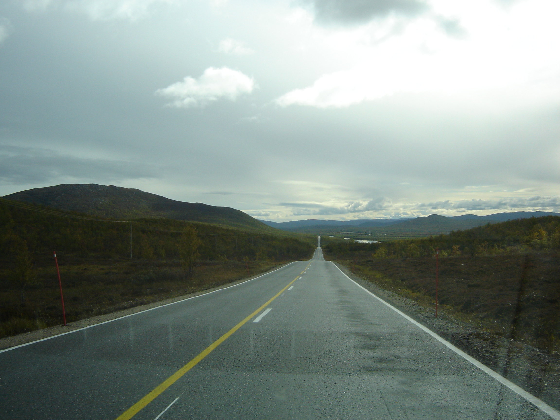 National Road 21 (E8) in Lapland, Finland